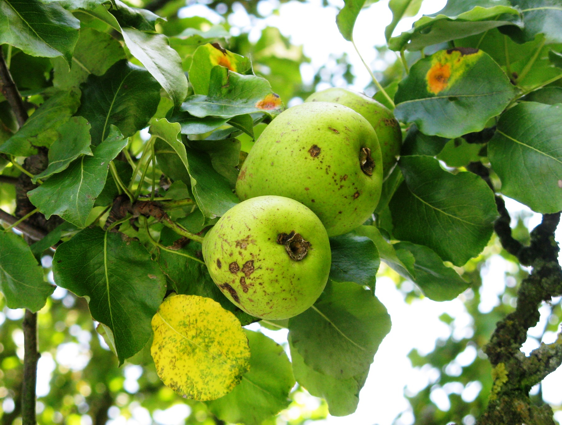 Oberösterreicher Weinbirne (Special kind of pears, Pliezhausen, Germany)